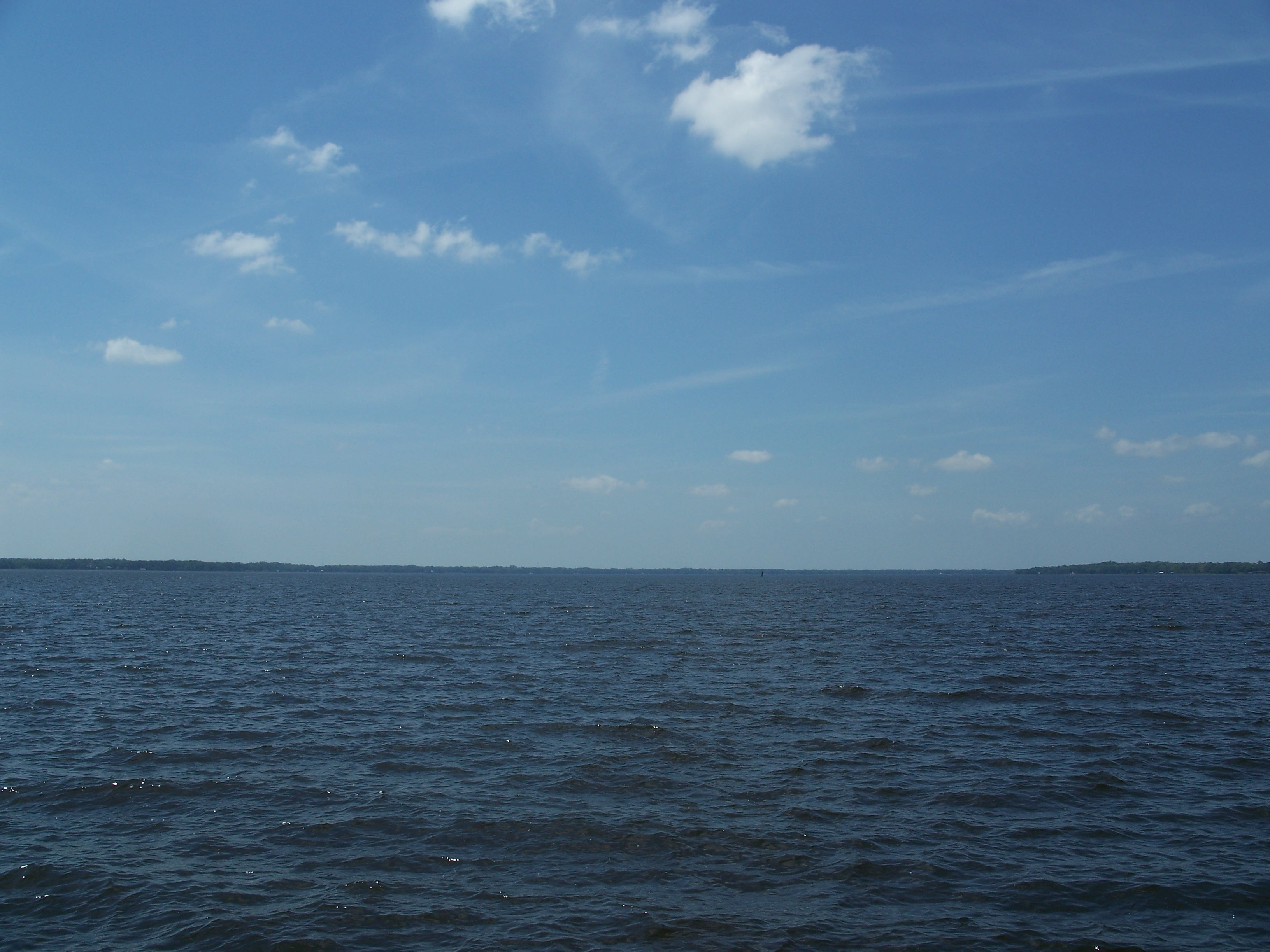 St. Johns River near Federal Point, Florida